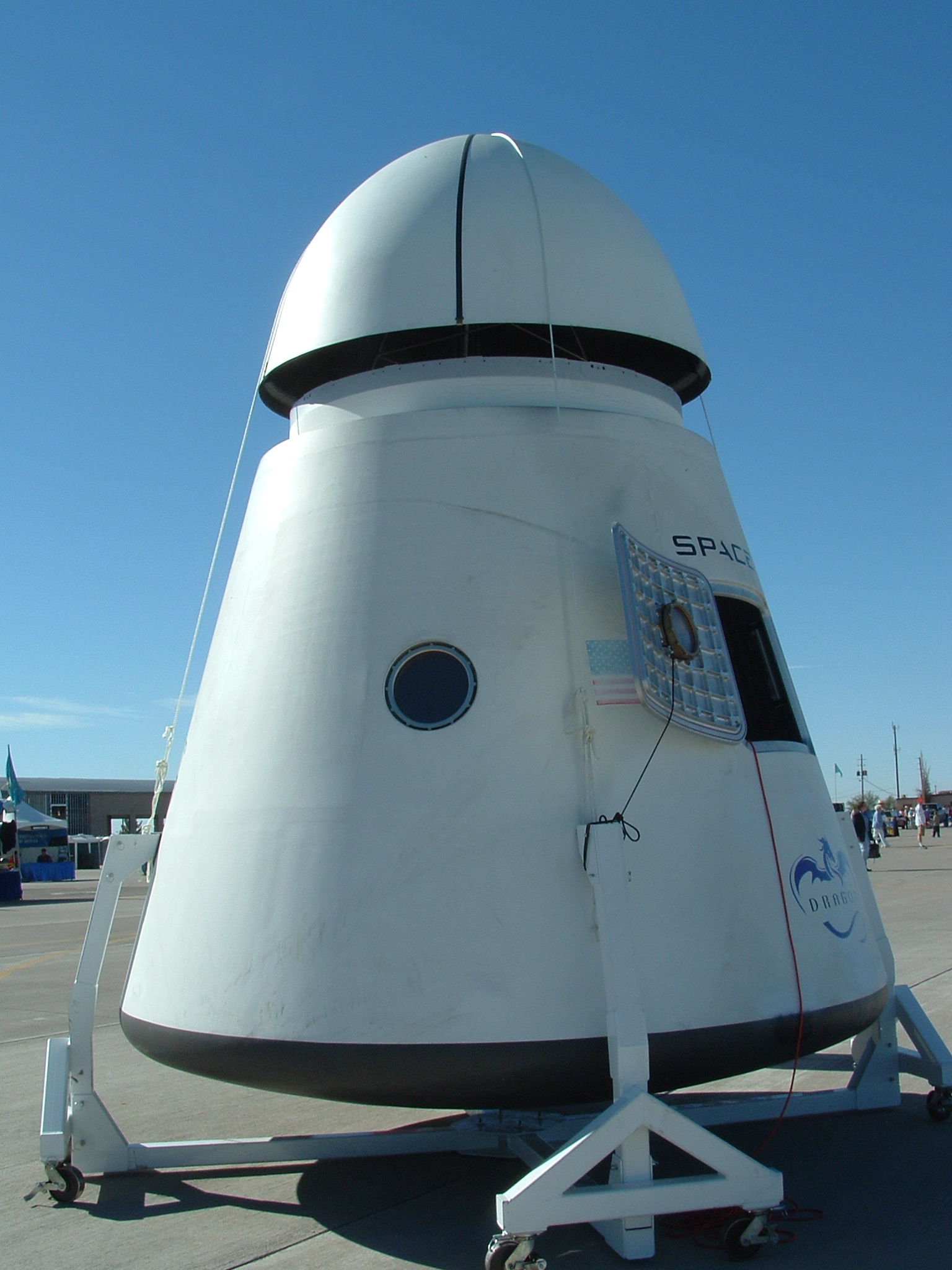 A SpaceX Dragon capsule structural test article on display at the en:2007 X-Prize Cup at Holloman Air Force Base, New Mexico